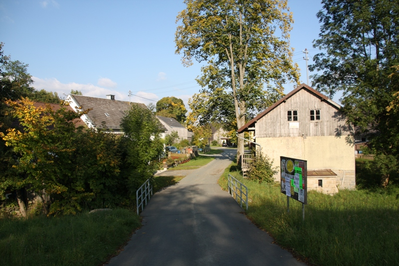 middle of village Mussen